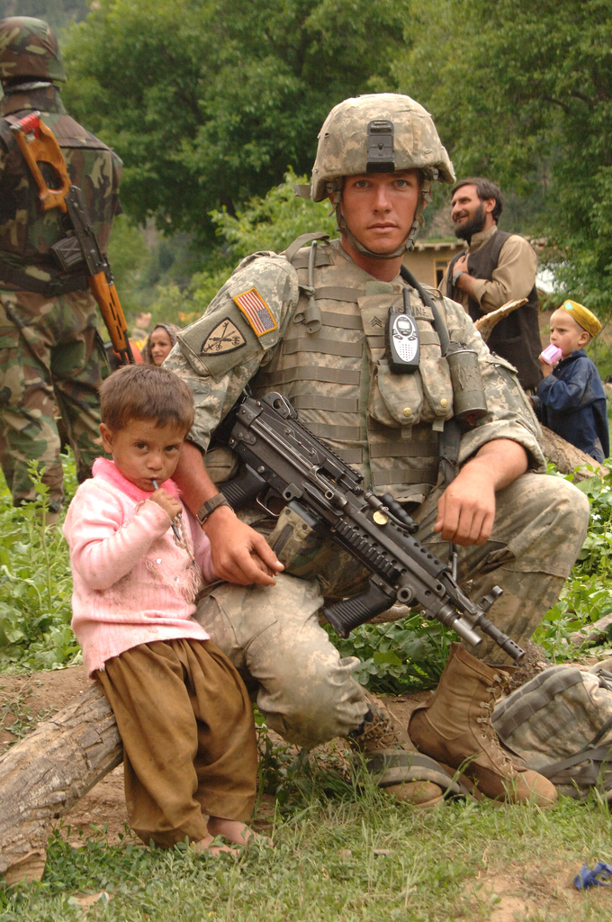 A little boy sits and holds the hand of U.S. Army Sgt. Resolve Savage, from Charlie Company, 1st Battalion, 158th Infantry Regiment, Arizona National Guard, while he pulls security outside of a hospital during a medical capabilities program and humanitarian assistance supply hand out in the Nuristan province of Afghanistan June 28, 2007. (U.S. Army photo by Staff Sgt. Isaac A. Graham)